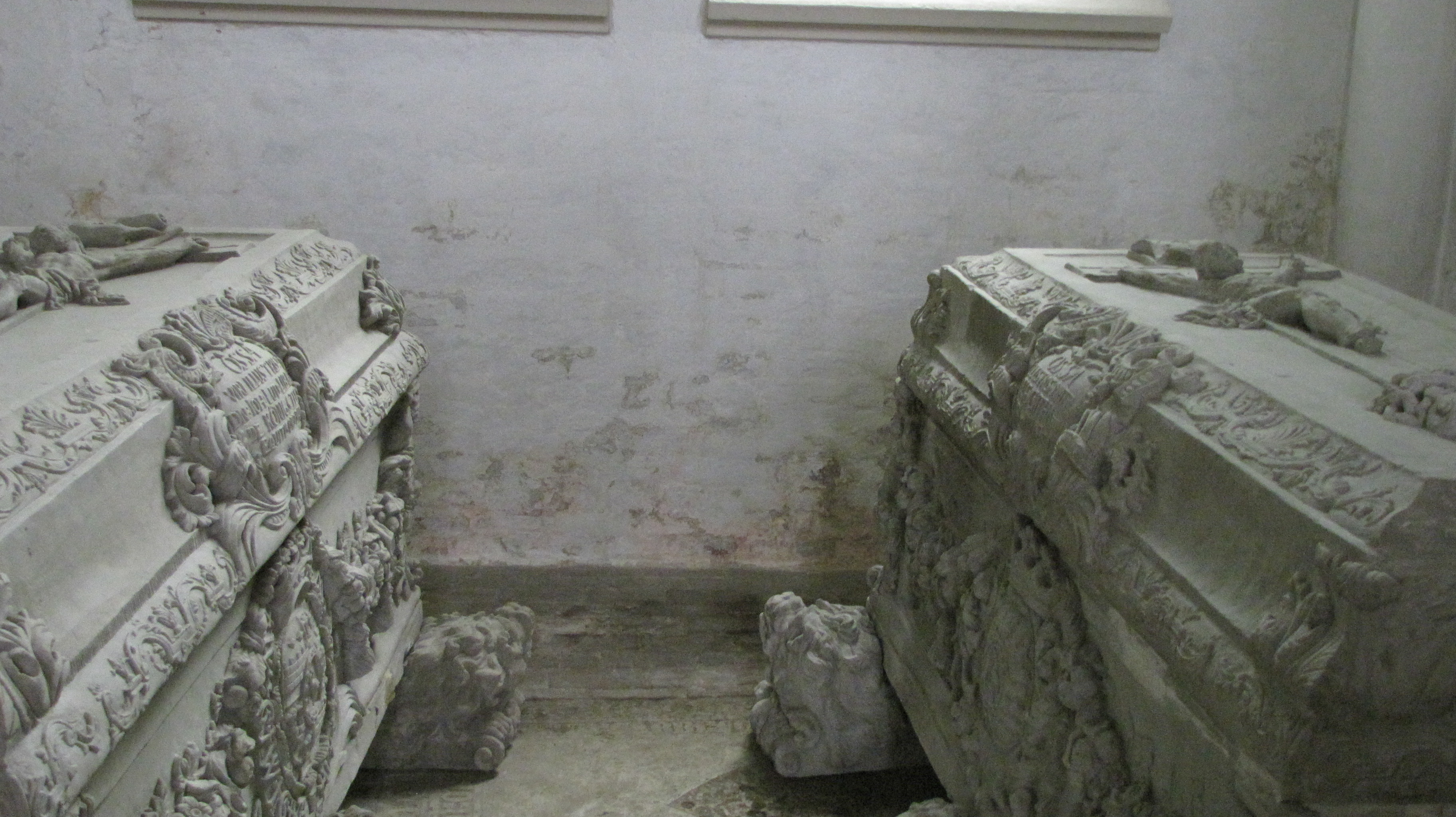 Sarcophagi of Johann Ludwig von Pincier, Freiher von Königstein and his wife in Lübeck cathedral